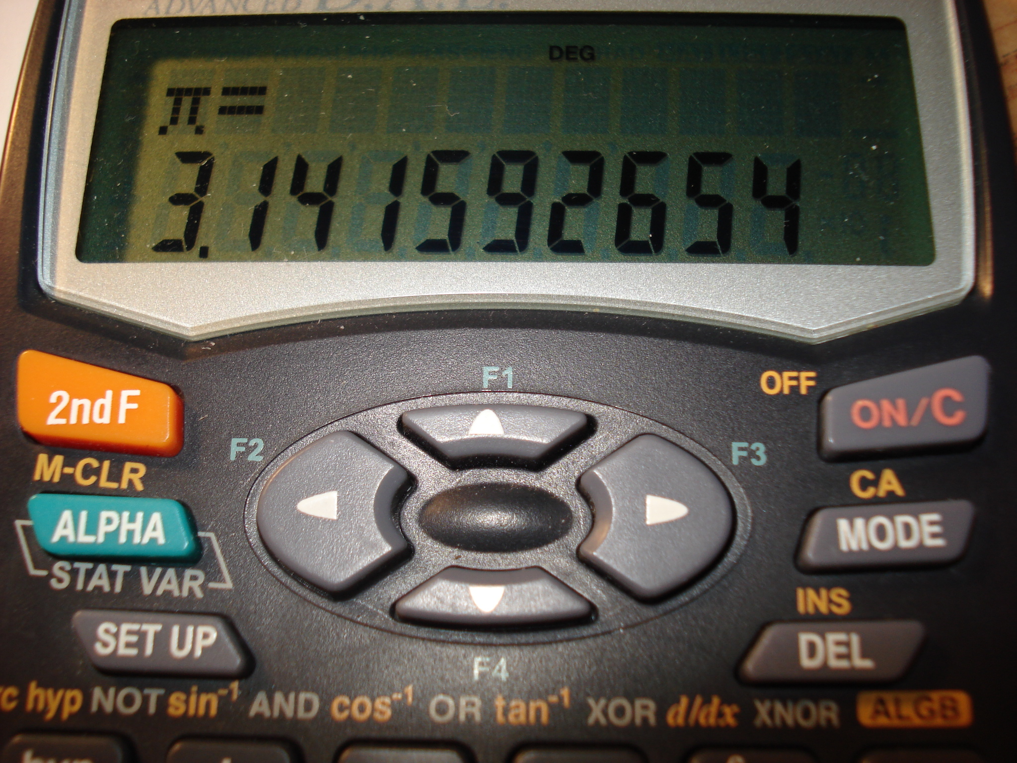 i took this picture for a class - shows a calculator with digits of pi